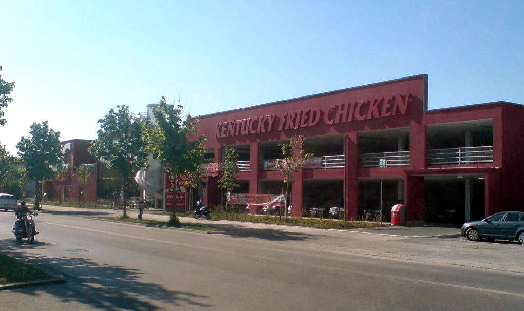 Photo of the KFC in Munich, Germany at Euro-Industriepark.